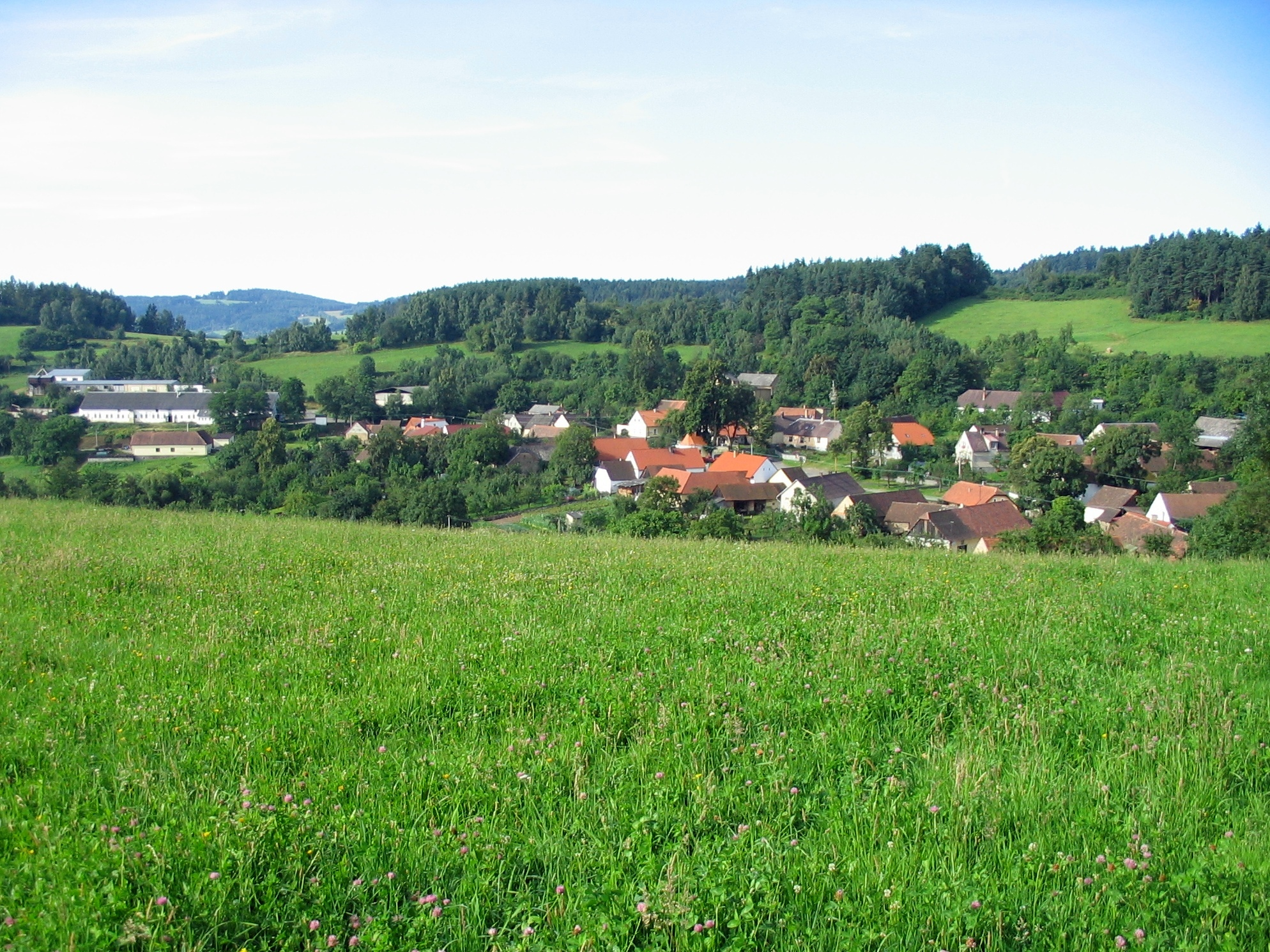 View of Škůdra from the northeast, Strakonice District, Czech Republic